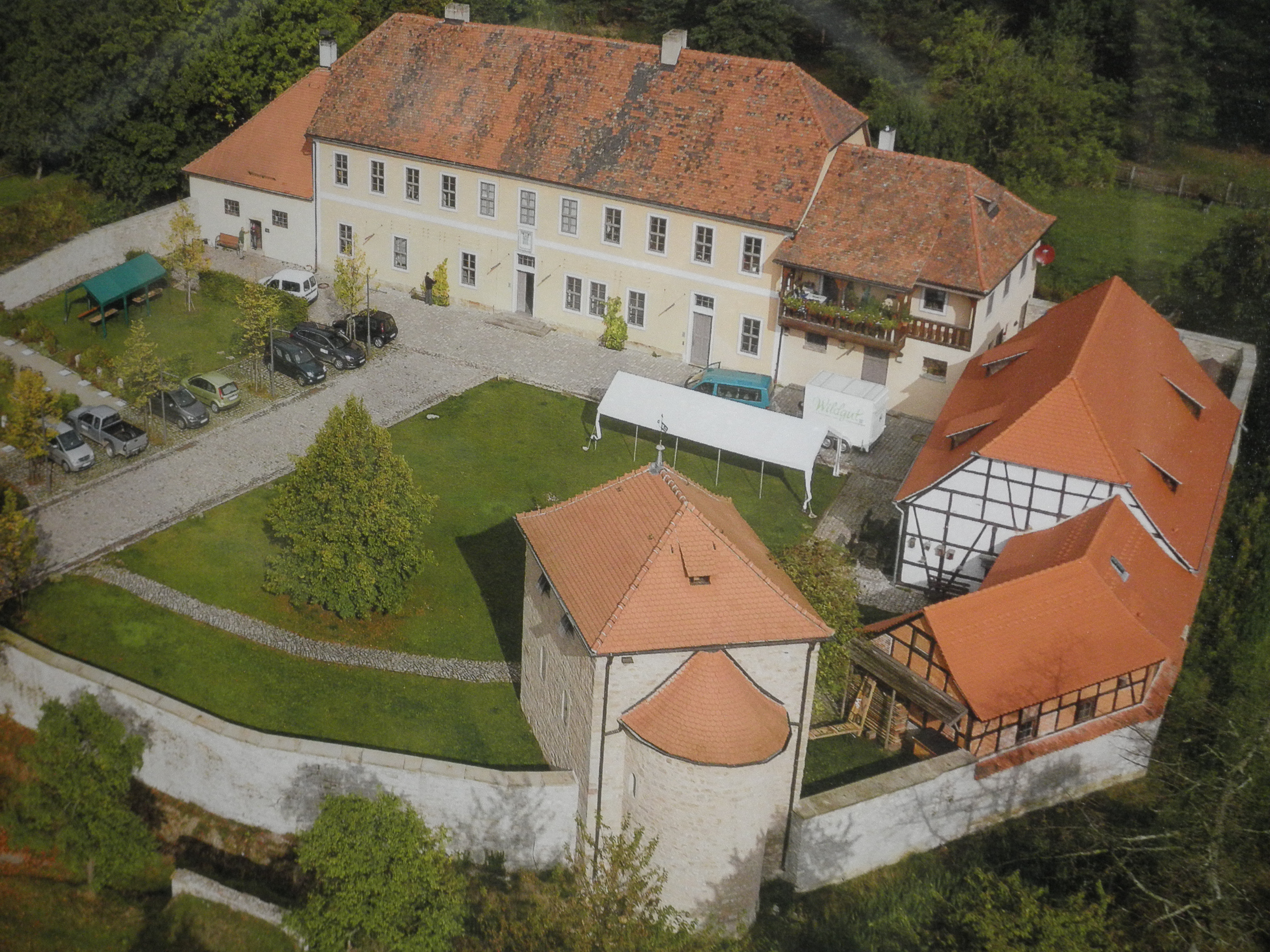 Forestry House Willroda near Egstedt in Thuringia